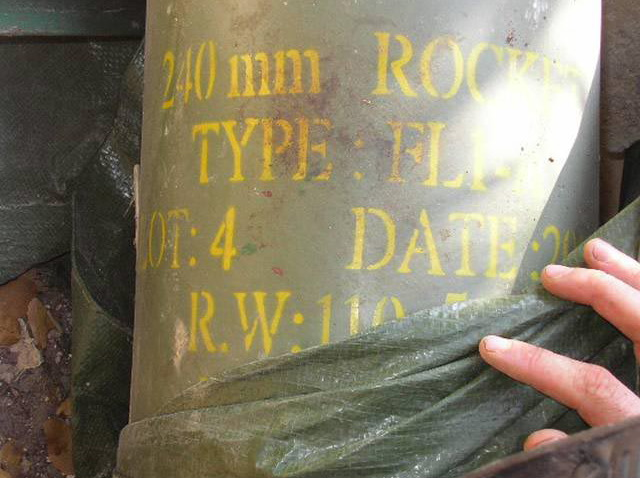 August 27, 2006 The Egoz Unit discovered bunkers built by Hezbollah in southern Lebanon, which were used for terror operations against Israel. Pictured: A 240 mm rocket shell.